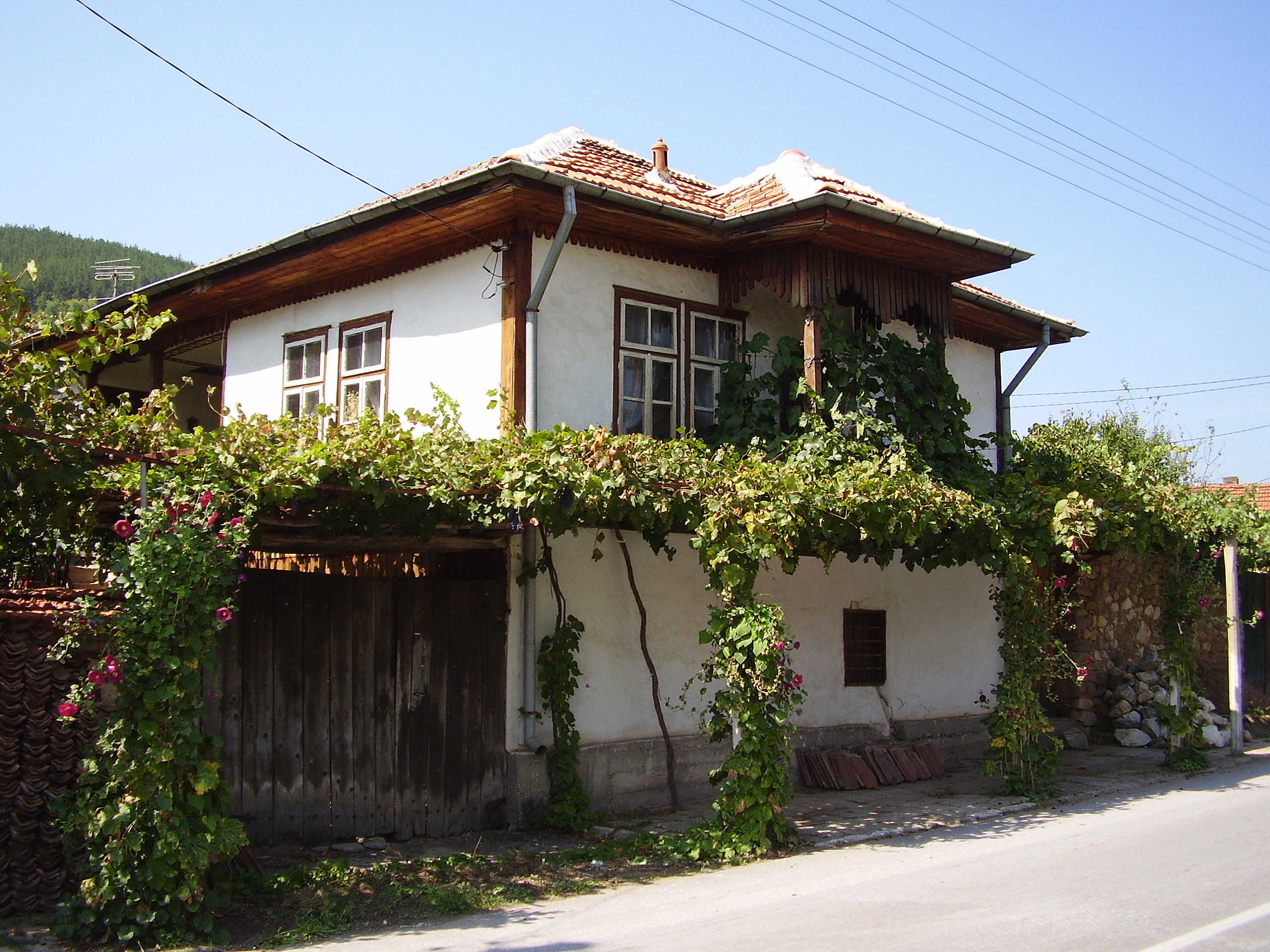 Goranovtsi, Kyustendil District